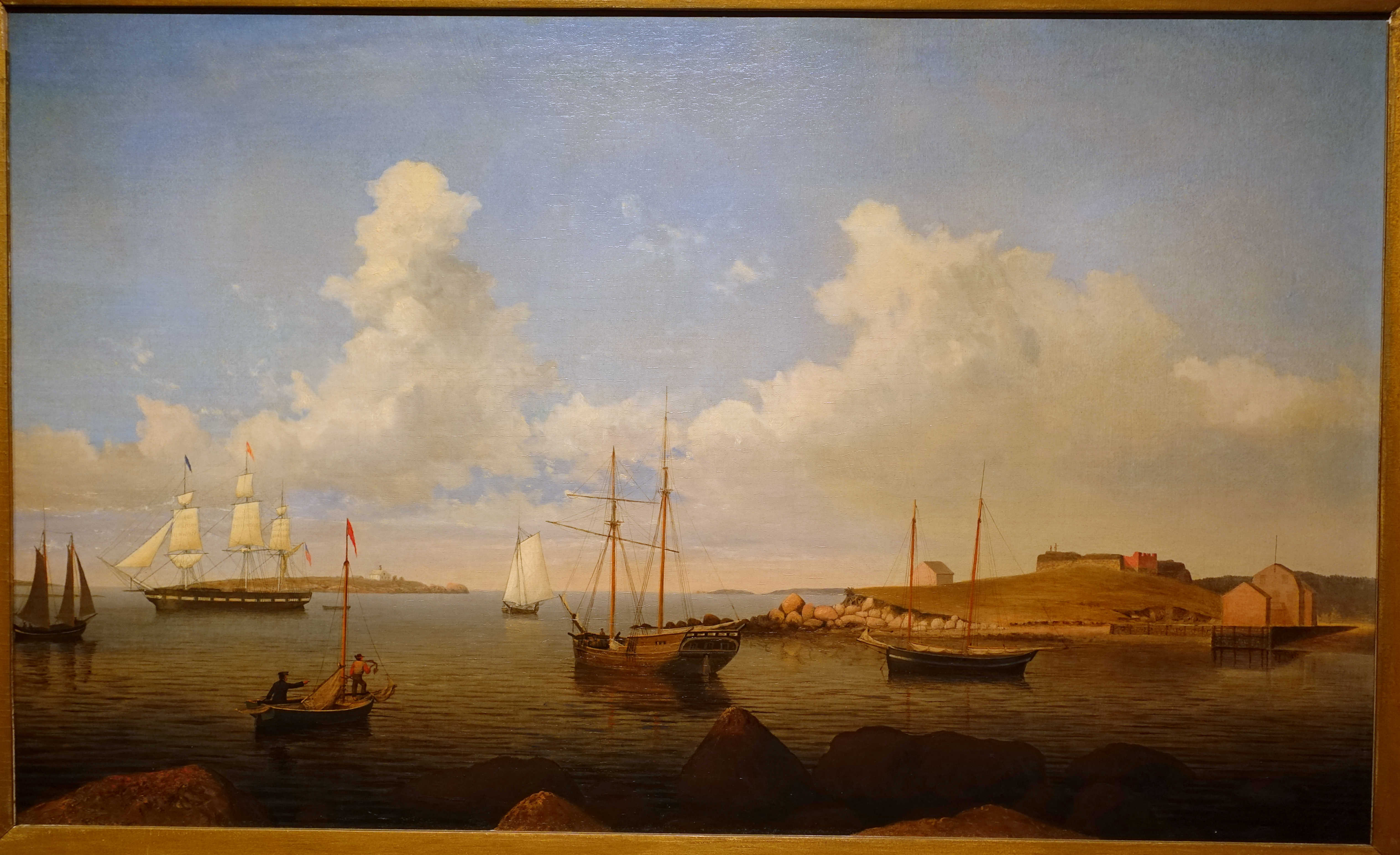 Exhibit in the Cape Ann Museum - Gloucester, Massachusetts, USA.